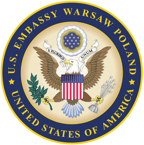 U.S. Embassy Warsaw Seal